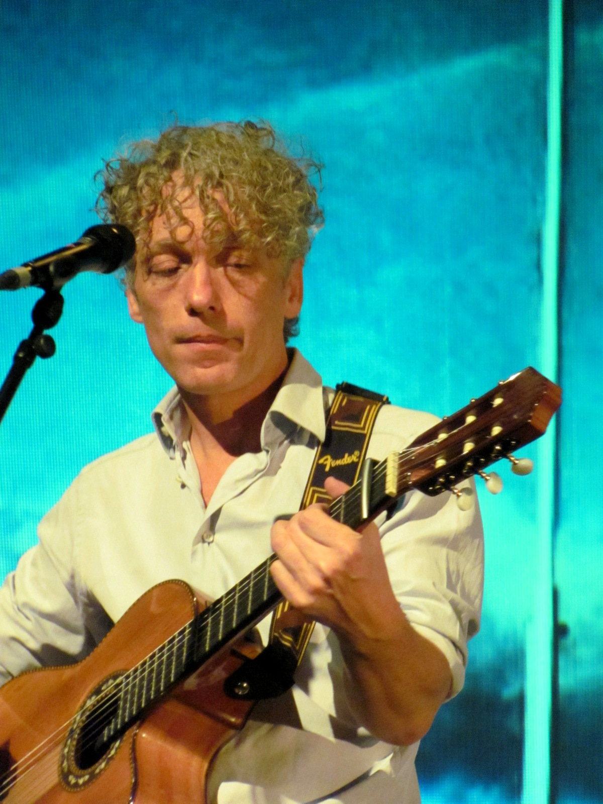 Spinvis concert in Junushof, Wageningen